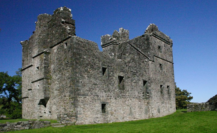 Photograph of Carnassarie Castle, Argyll, taken by Martin McCarthy (Tumulus) 2004